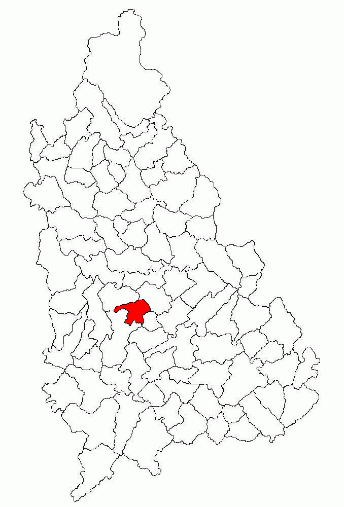 Location map of Raciu Commune in Dambovita County, Romania